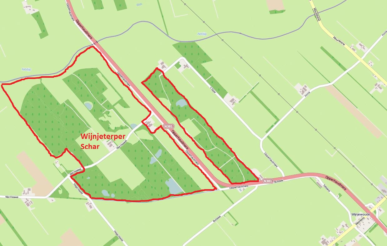 Wijnjeterper Schar. Friesland.